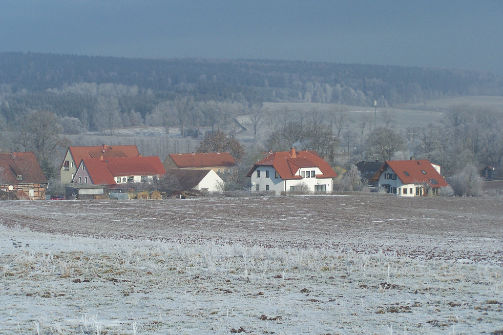 Oberrohn village in Thuringia.